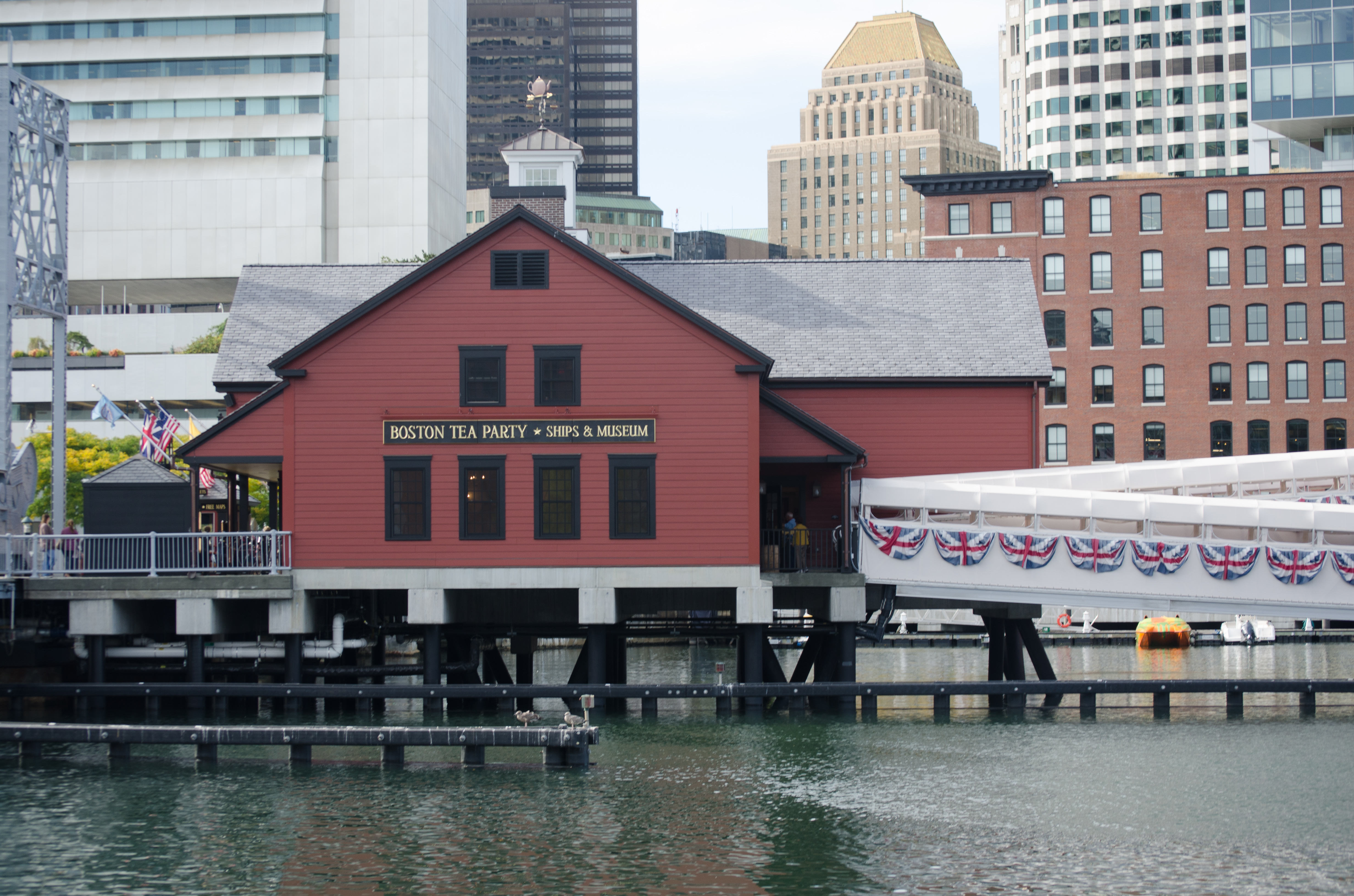 The Boston Tea Party Museum on the Congress Street Bridge in Boston, Massachusetts.